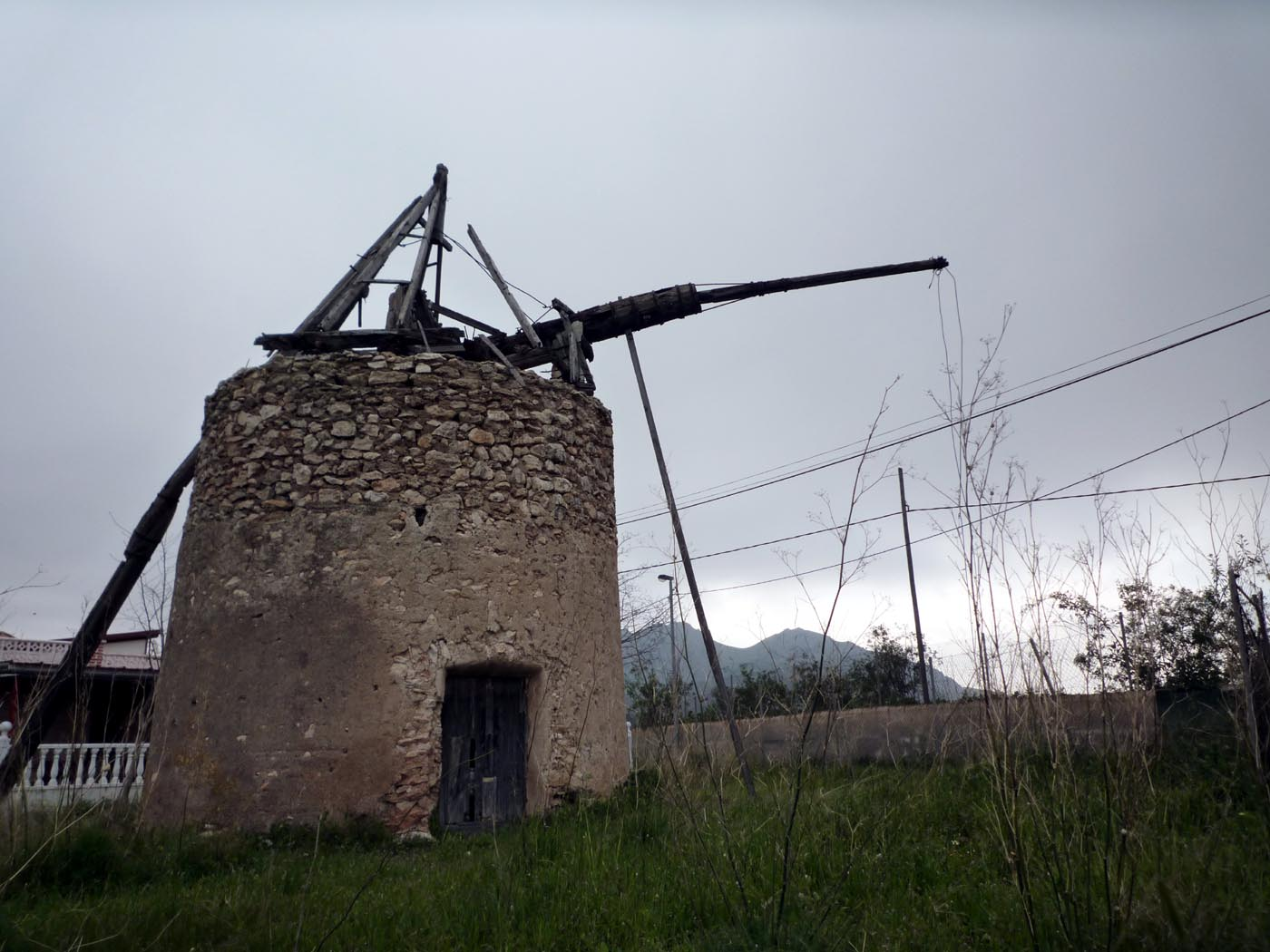 Windmill in Galifa (Cartagena, Spain)